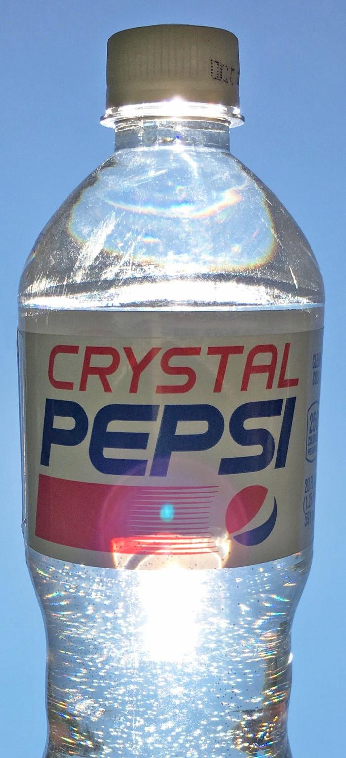 Photo of a 20 oz bottle of Crystal Pepsi from America, with a blue sky background